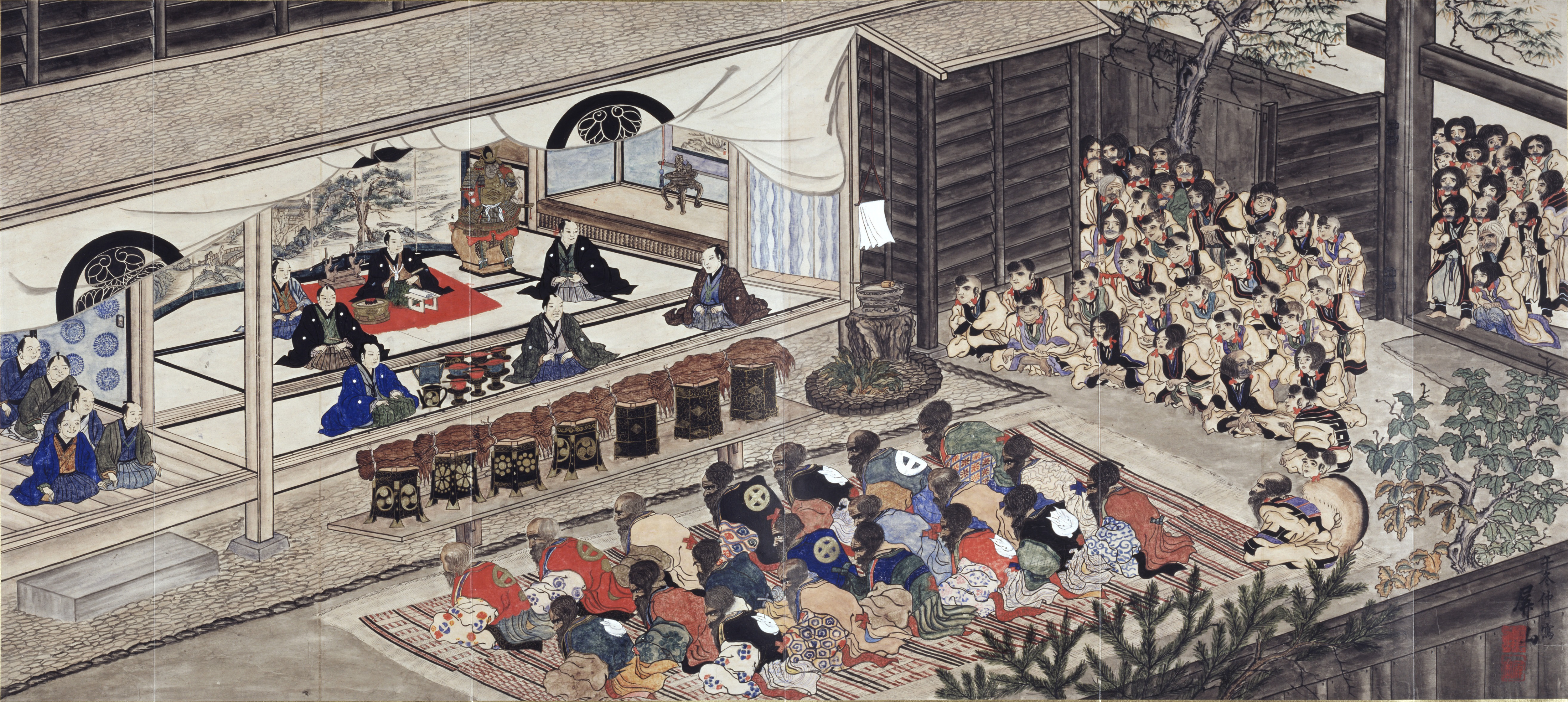 Hidaka Ainu - Umsa, by Hirasawa Byōzan (identified by「屏山」in the bottom right corner), Hakodate City Central Library, Hakodate, Hokkaido, Japan